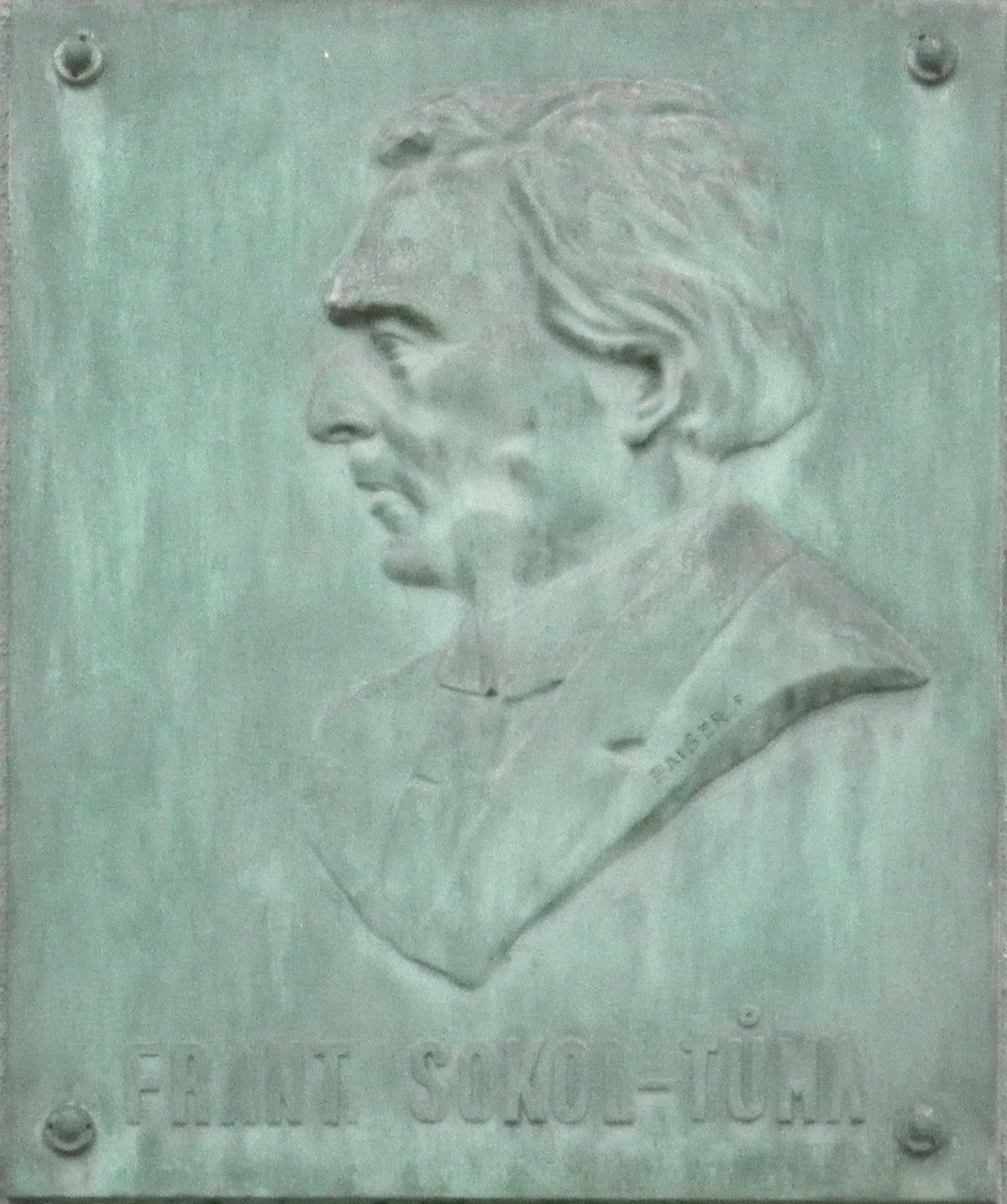 Bronze plaque of Czech writer František Sokol-Tůma in 30. dubna 1431/9 street, Ostrava. It is on the house, where he lived.